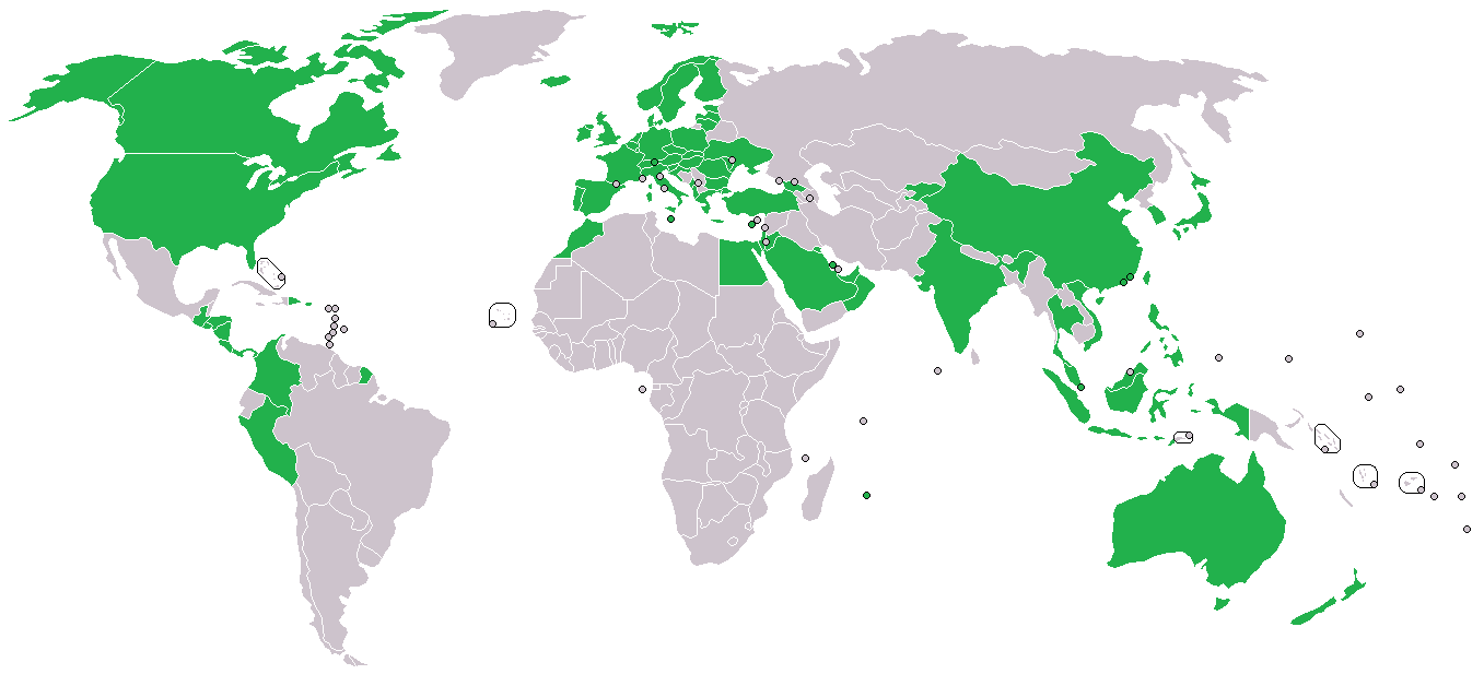 dark green - members